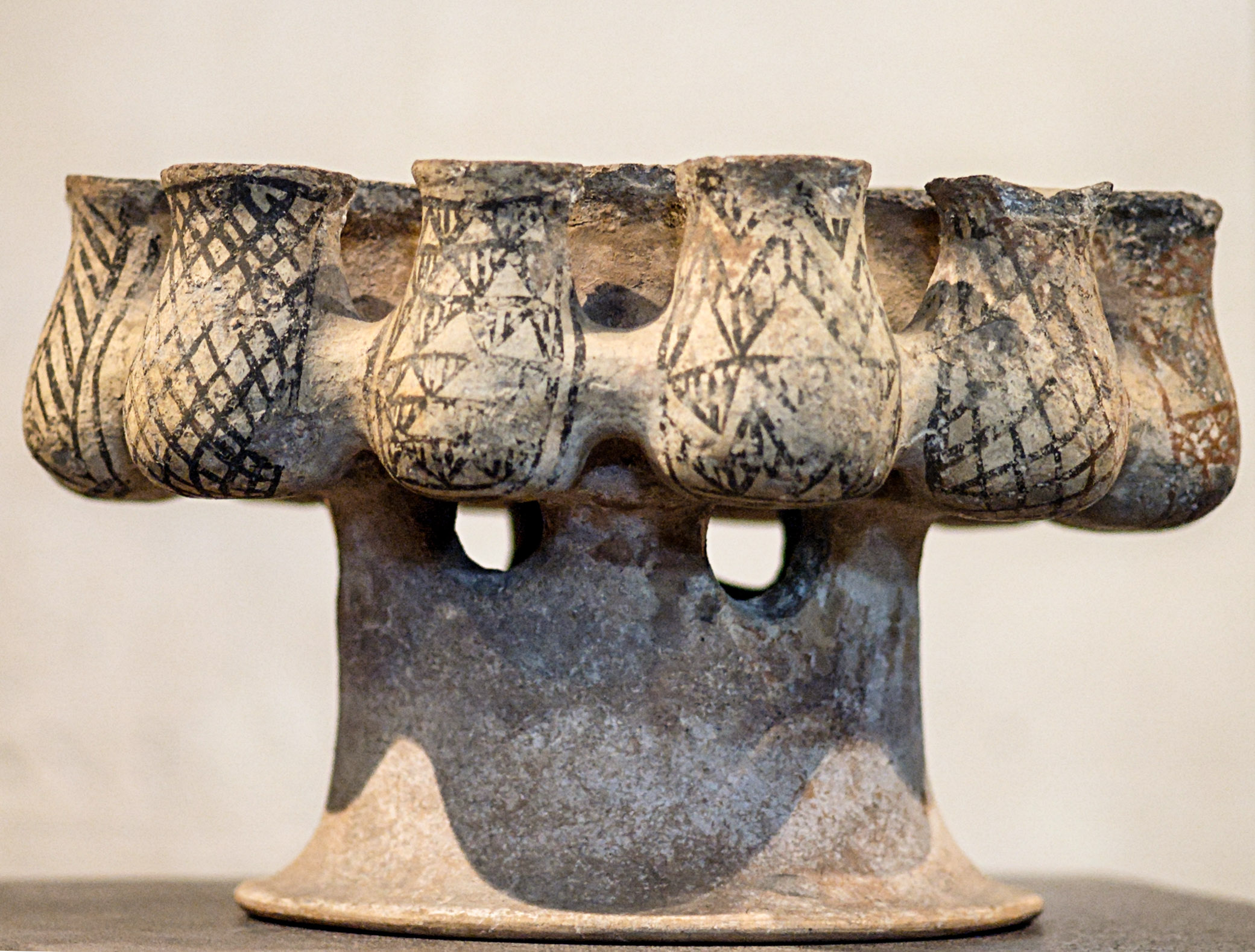 Kernos, Early Cycladic III–Middle Cycladic I (Phylakopi I-II, ca. 2000 BC). Found in a tomb in Melos.